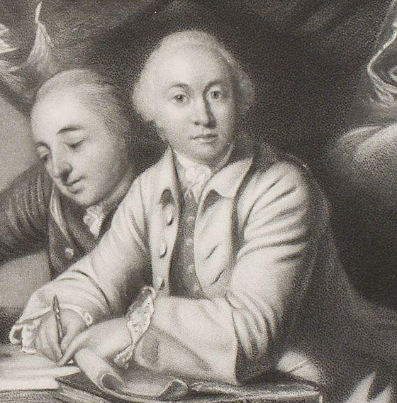 Richard Edgcumbe writing on a desk and looking towards the viewer, with George James Williams looking over his shoulder. Detail of George Augustus Selwyn; Richard Edgcumbe, 2nd Baron Edgcumbe; George James Williams, by Henry Graves (died 1892), published 1865.